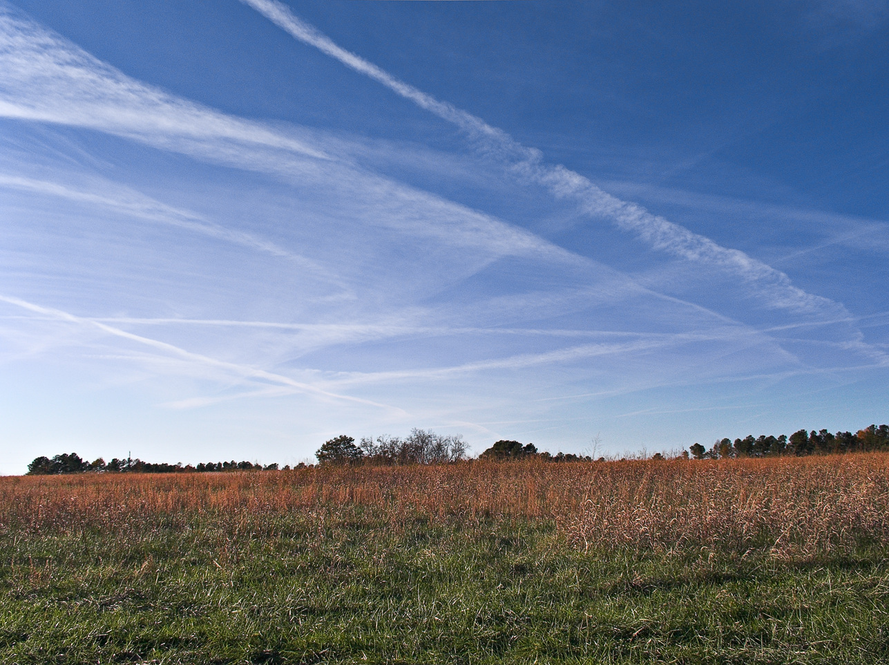 Contrails over a field near PiccoloNamek's house.